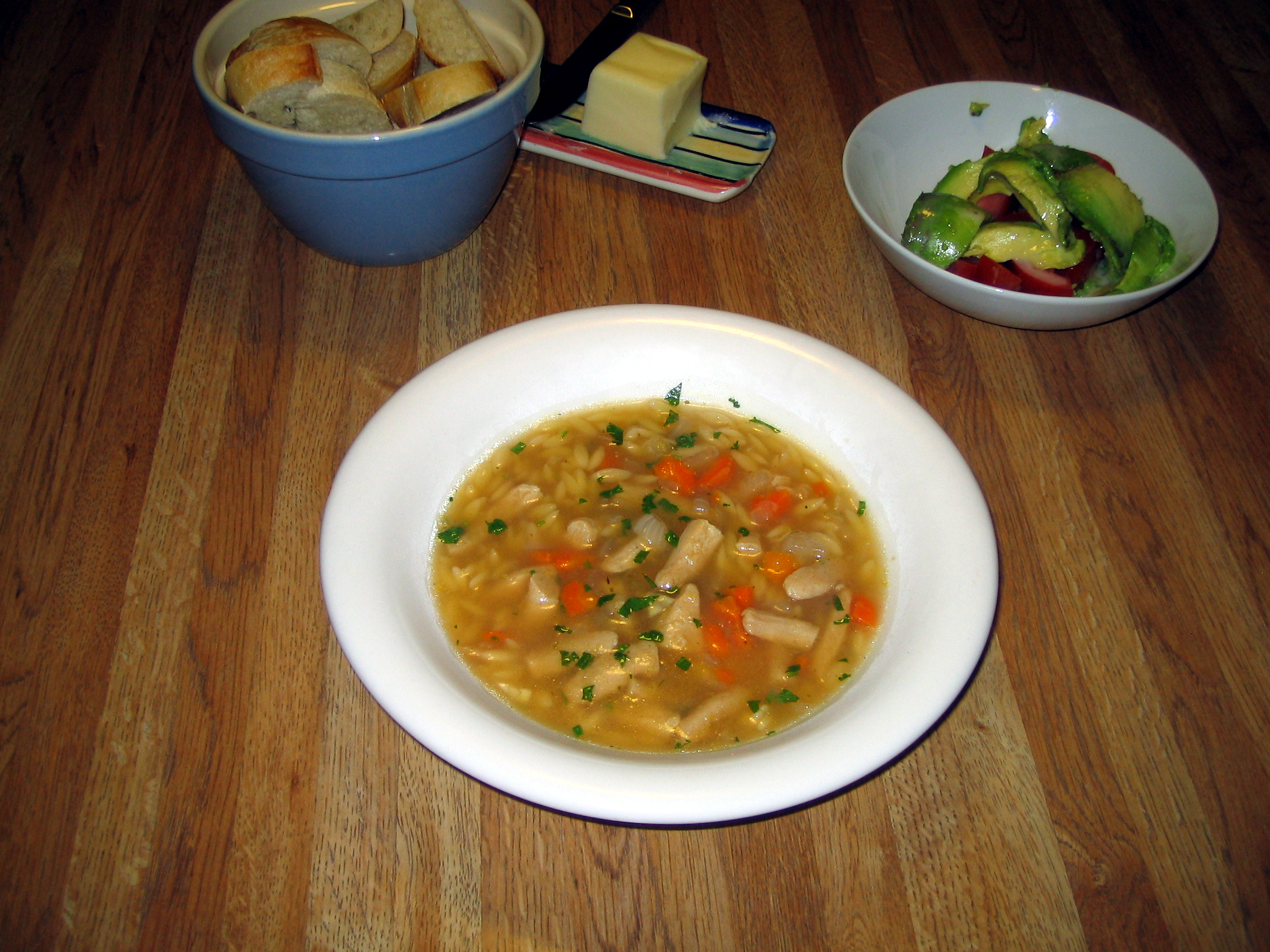 Delicious and easy to make! Recipe from Cooking Light: (I made this with my favorite veg chicken: LightLife)